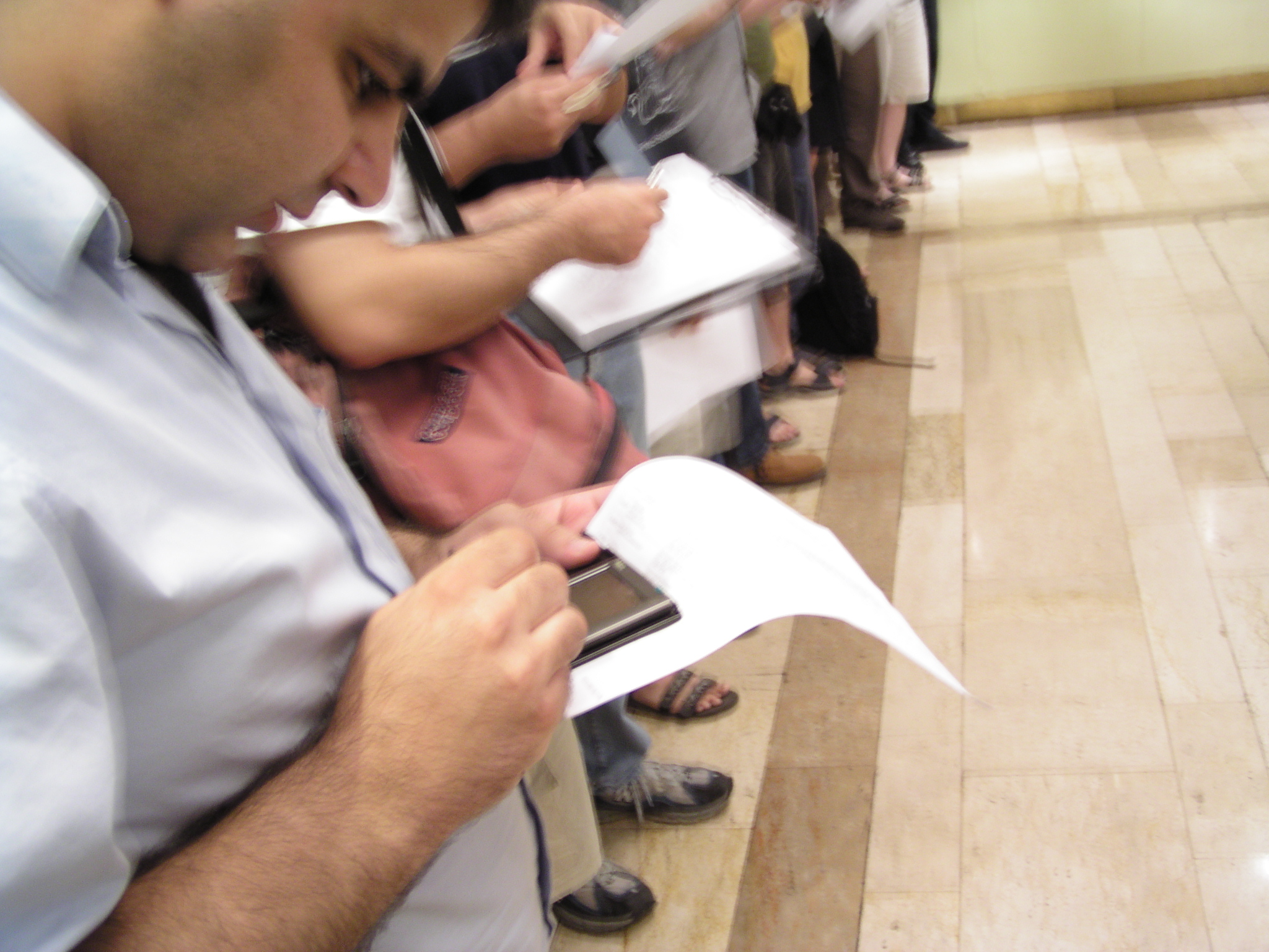 Key signing party at the 2nd August Penguin conference (2003).